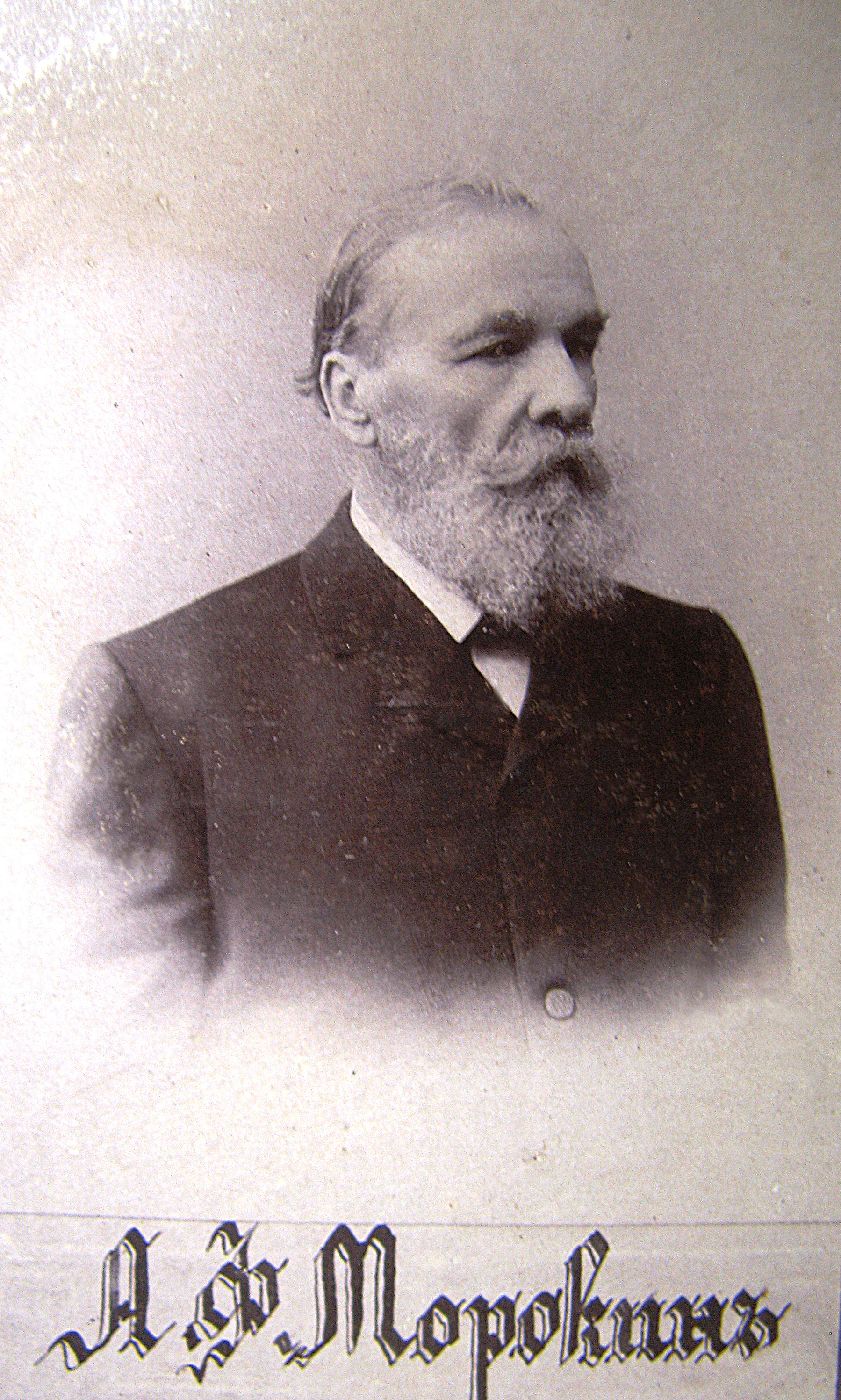 Aleksander Morokin (1836-1911), a Russian businessman